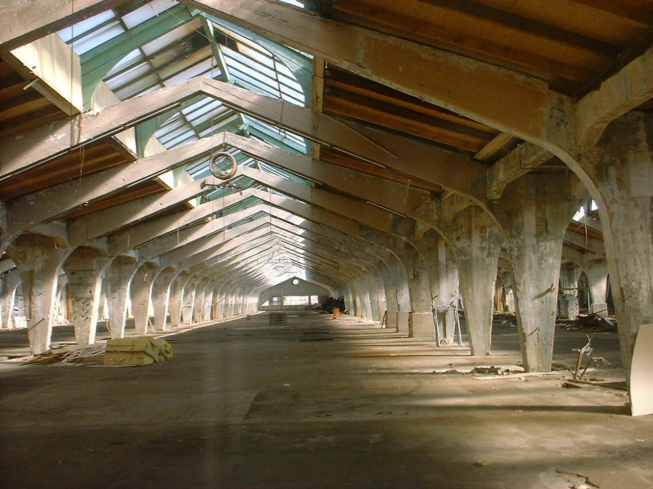 Inner view of hat factory Friedrich Steinberg Herrmann & Co.